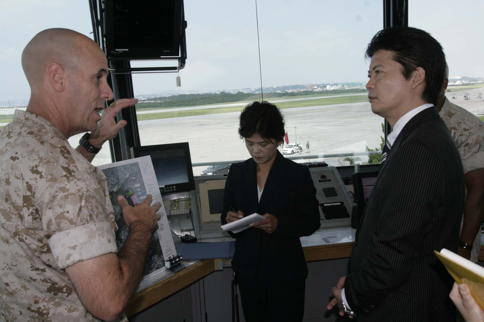 MARINE CORPS AIR STATION FUTENMA, OKINAWA, Japan - Japan Minister for Foreign Affairs Koichiro Gemba receives a briefing from Col. James G. Flynn, Marine Corps Air Station Futenma commanding officer, here Oct. 19. The purpose of Gemba’s visit was to receive a base tour and mission briefing. (U.S. Marine Corps photo by Staff Sgt. Michael A. Freeman/Released)